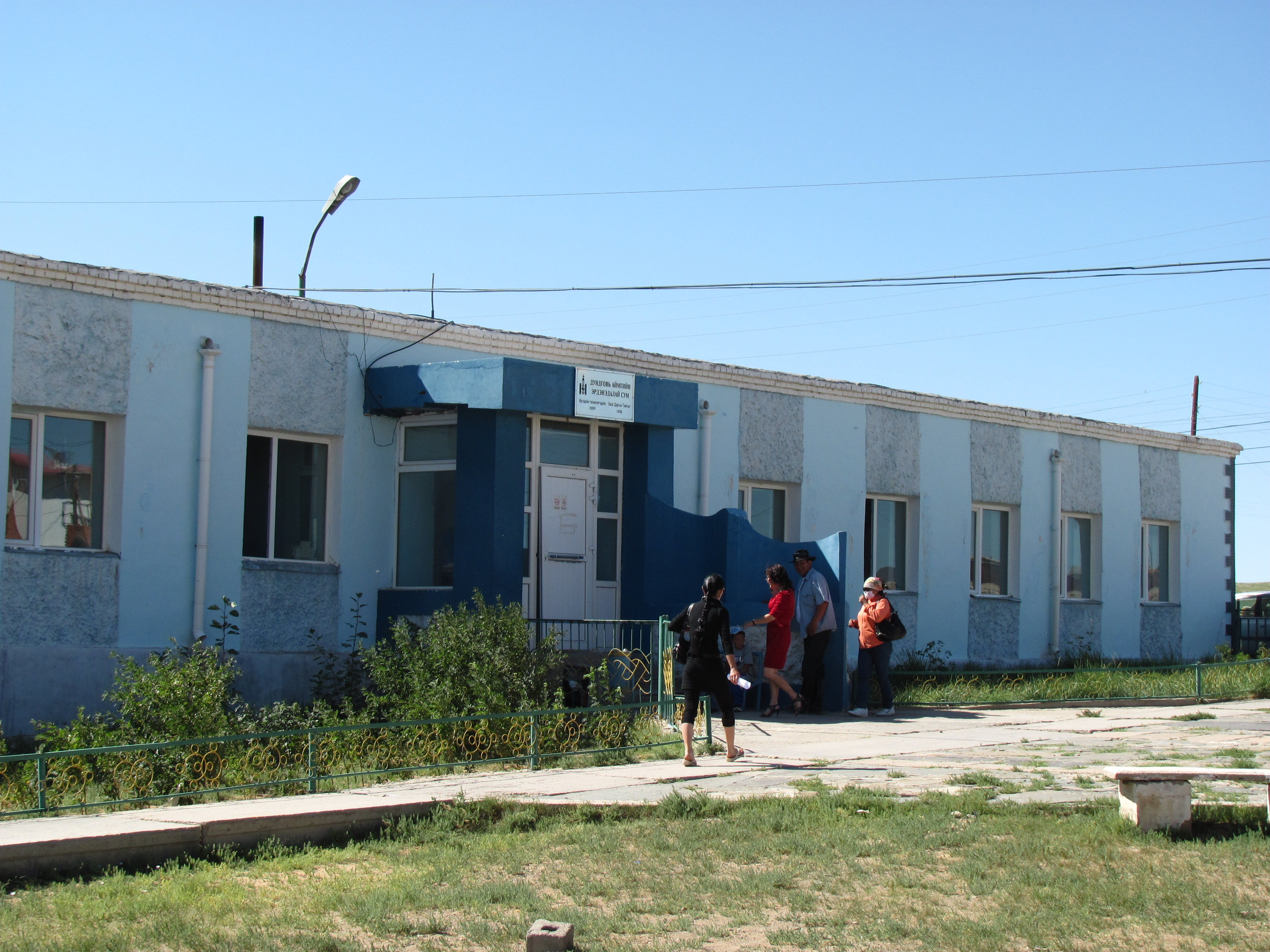 Sum Administration Building, Erdenedalai, Dundgov Aimag, Mongolia.